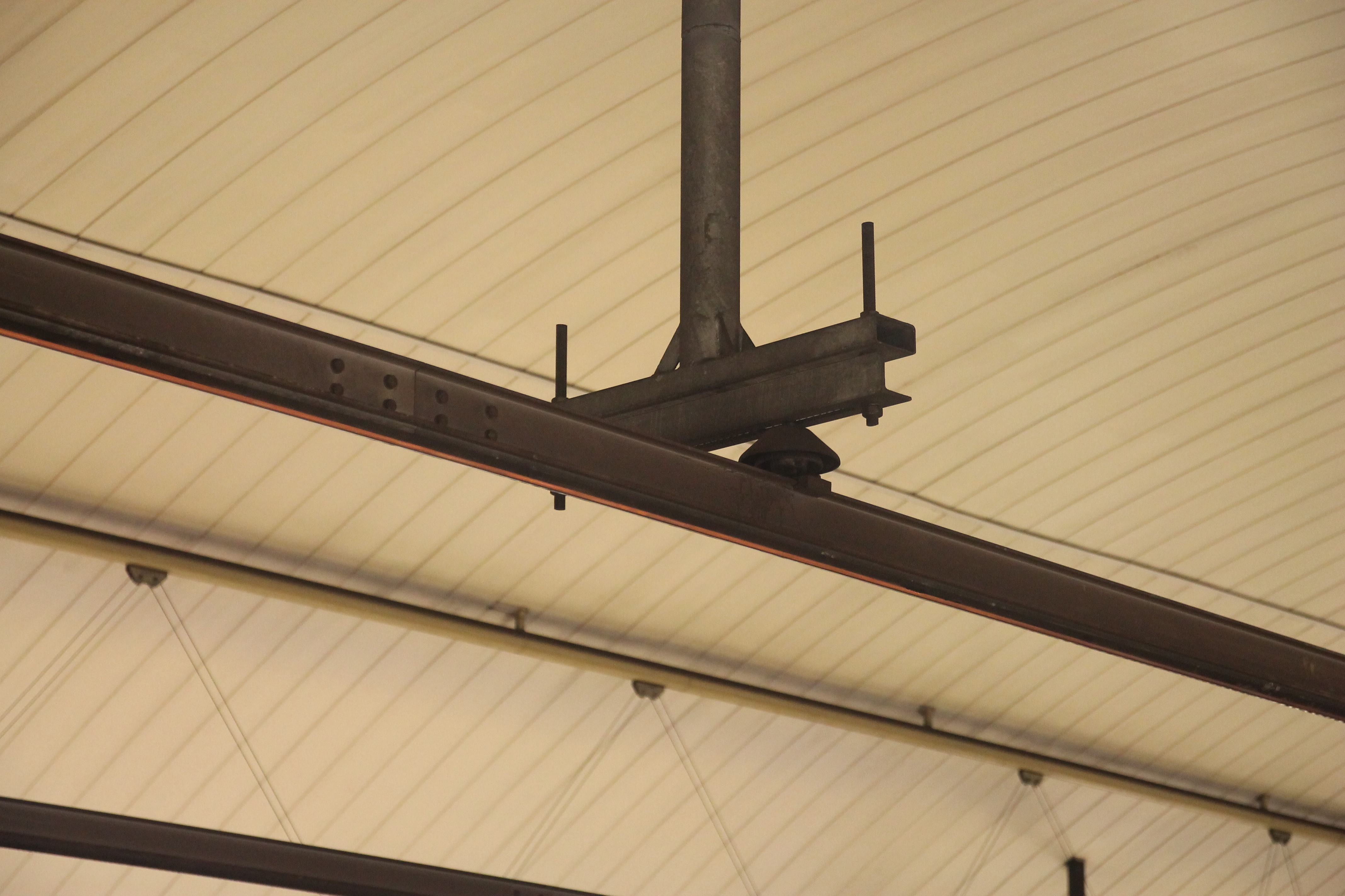 Overhead rail (line 10), Nuevos Ministerios station, Madrid Metro